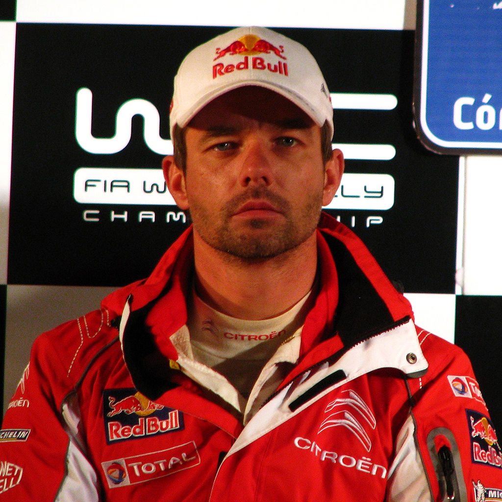 Sebastien Loeb (FRA) - WRC Rally Argentina 2011